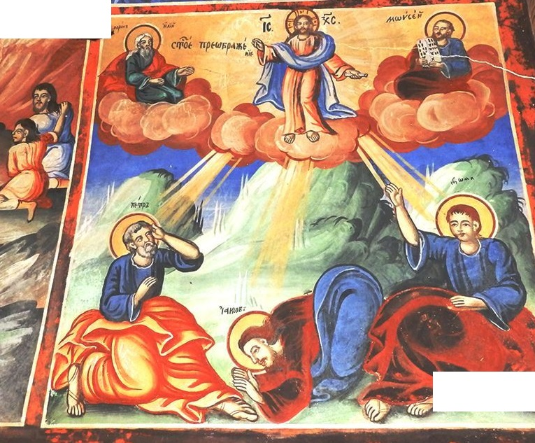 Fresco_in_Saint_Mary_Church_in_Fariš